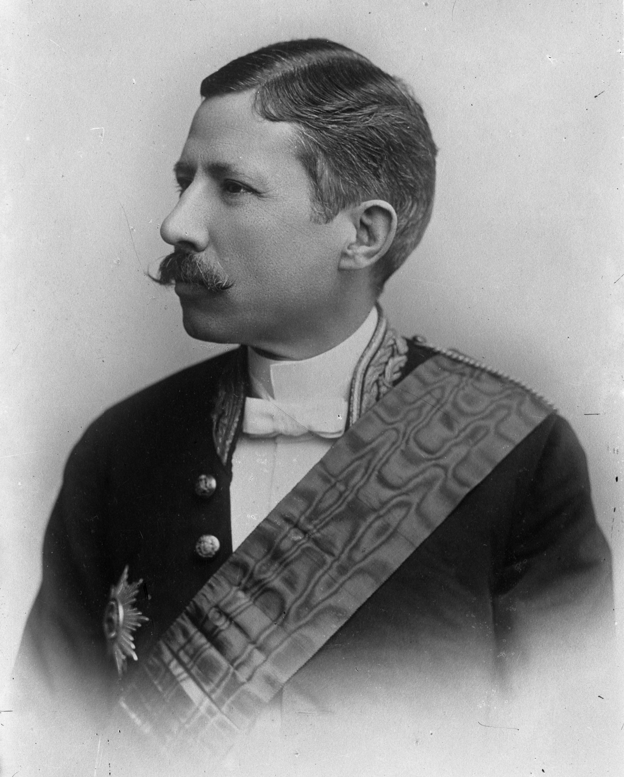 João Franco (1855-1929), last President of the Council of Ministers under King Charles I of Portugal.